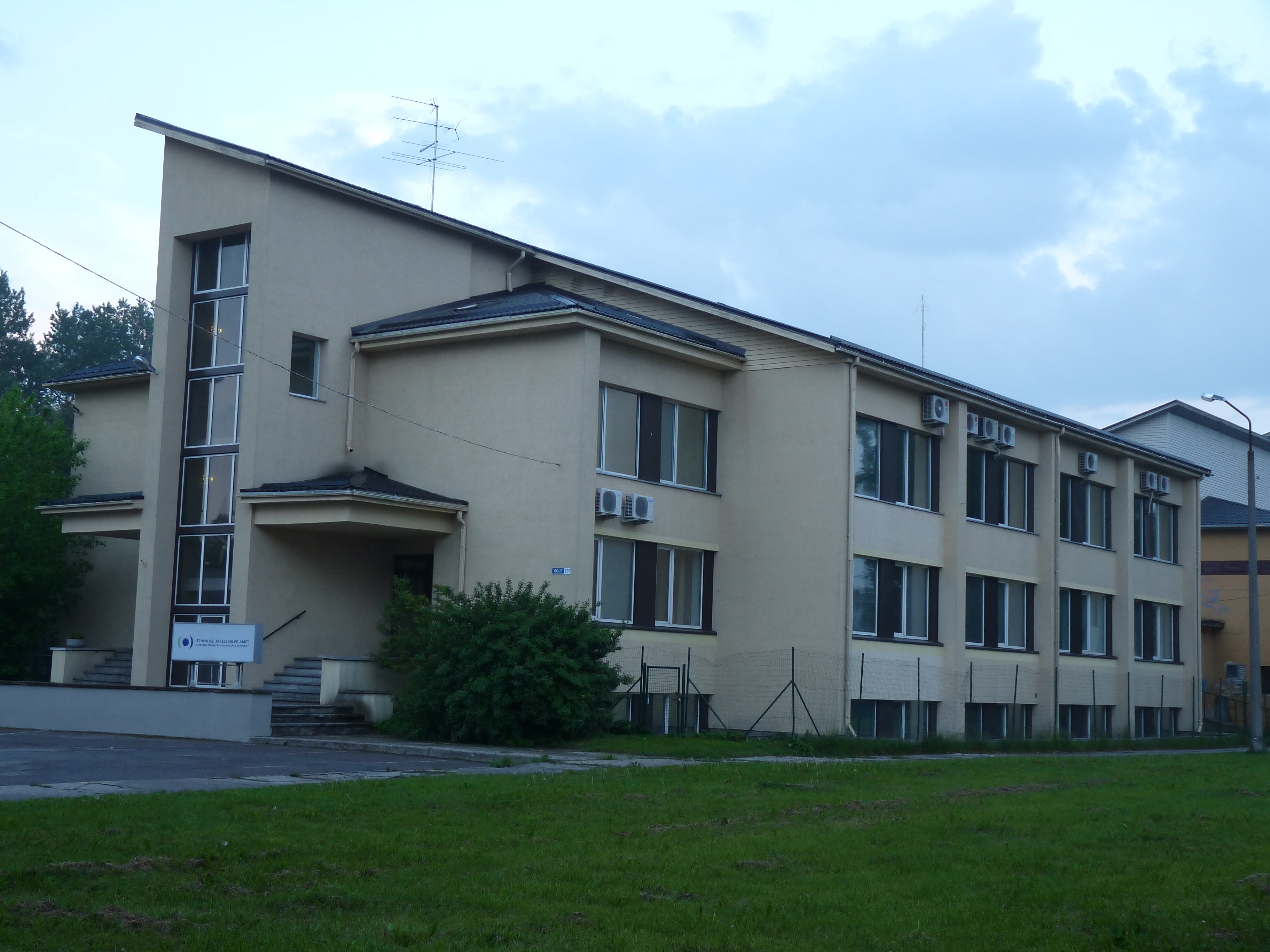 Technical Surveillance Authority of Estonia